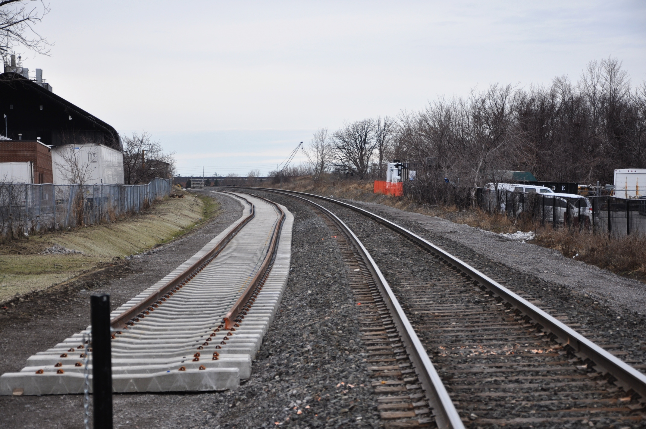 Looking northbound from Rivermede Dr at the Metrolinx Newmarket Subdivision (GO Transit Barrie Line). Double-tracking is underway.